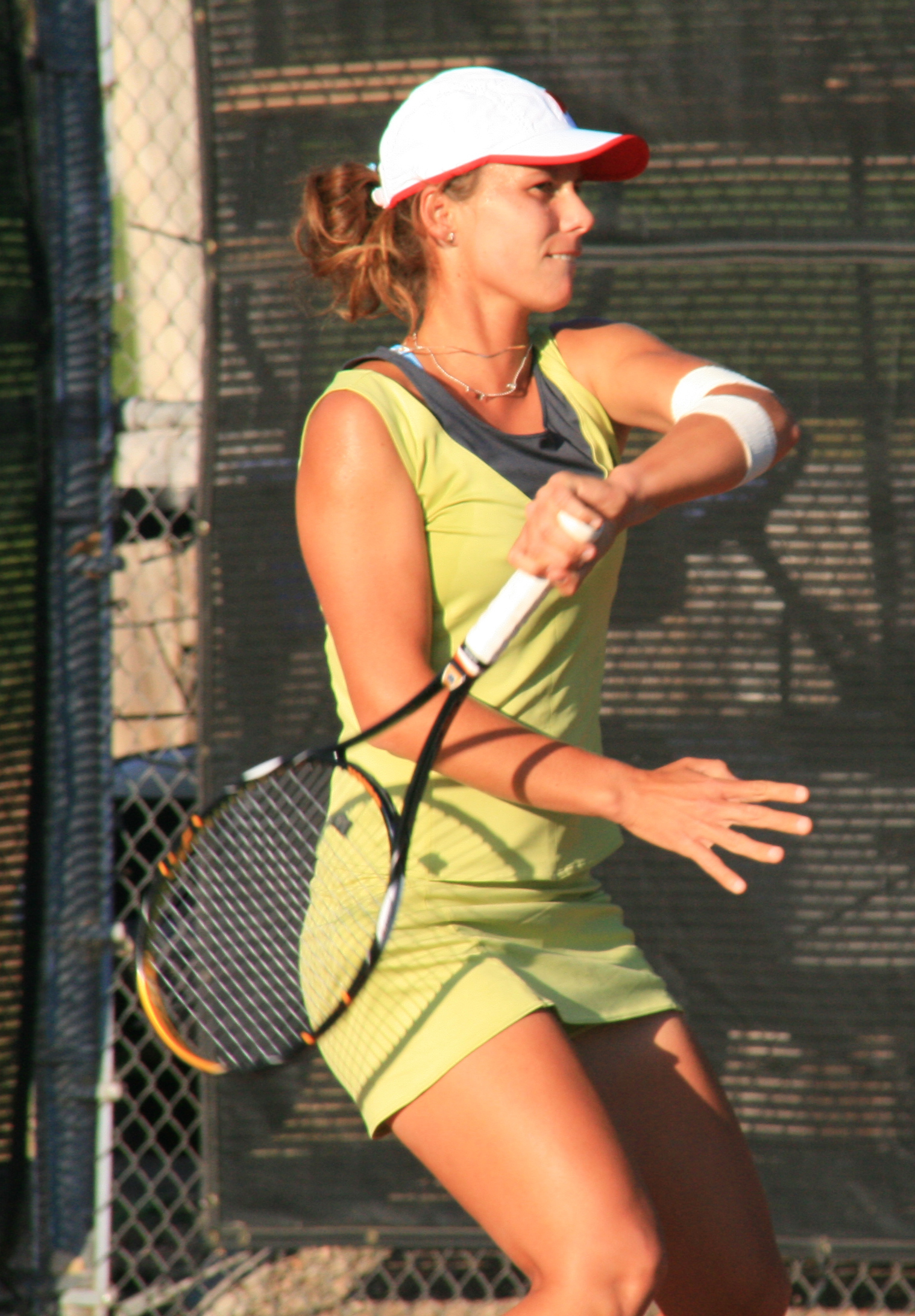 Yulia Fedossova at the Coleman Vision Tennis Championship in Albuquerque, New Mexico.